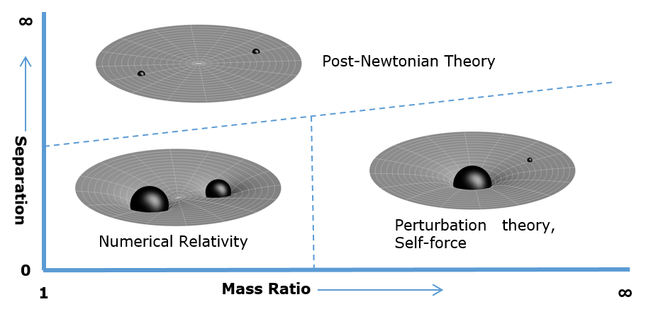 Diagram show the relationship between various approaches to modelling black hole binaries.